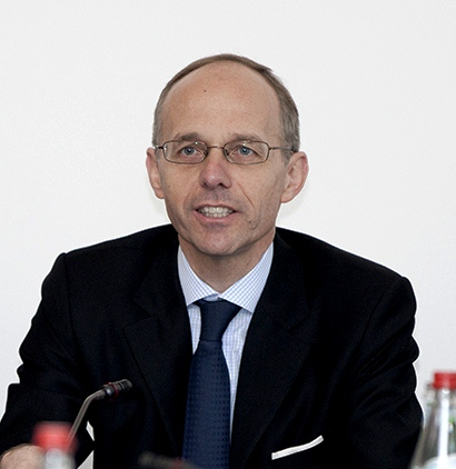 Luxembourg politician Luc Frieden speaking at the Luxembourg Institute for European and International Studies conference Arno J. Mayer – Critical Junctures in Modern History, 10-11 May 2013, Casino Luxembourg.